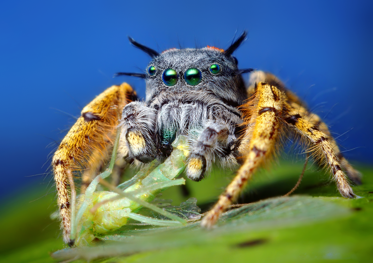 Click here for the video! Here is yet another fantastically beautiful male Phidippus mystaceus – discovered once again by the same friend who spotted this guy while out bug-hunting with me last October. Bear in mind that I had spent a good three years searching for an adult male specimen of this species before he found that last one, and he has already inadvertently happened upon two this fall. Bitterness aside, I'm quite grateful – these spiders are an absolute joy to observe and photograph. There seems to be a fair amount of variation in the appearance of this species and the three P. mystaceus I've had the chance of photographing in this area of Oklahoma seem to be markedly different than other P. mystaceus I have seen in photographs (like this amazing male photographed by J.H. Carmichael in Texas for example). The image above is a slight crop from a single image taken with my 50mm at f/16 reversed on a set of extension tubes. The females are possibly even more amazing – here is a small set of photos of an adult female I found a couple years ago